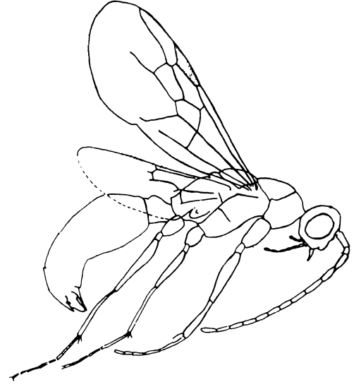 Dlusskyidris zherichini illustration 1978